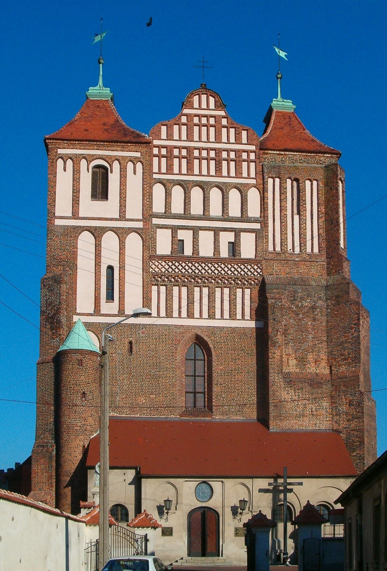 Góra, Poland